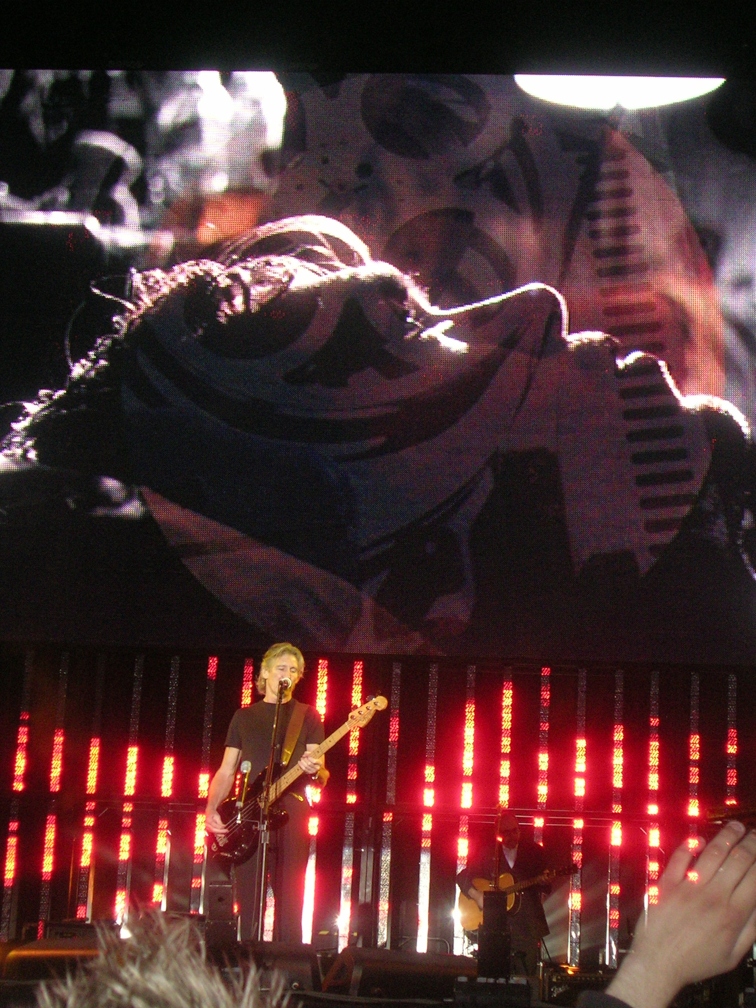 Roger Waters playing "Comfortably Numb" on the "Dark Side of the Moon live" tour in Viking Stadion, Stavanger, Norway.